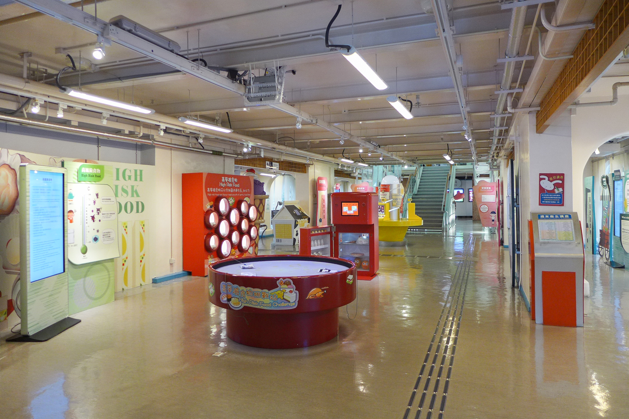 Health Education Exhibition & Resource Centre